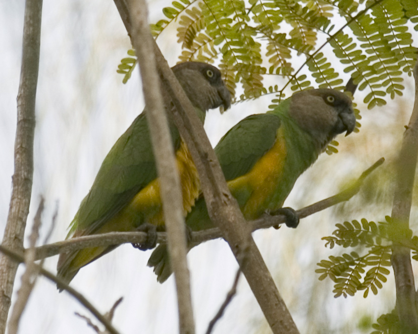 A pair of wild Senegal Parrots in a tree in Africa, a birding site Technopole in Dakar, Senegal.